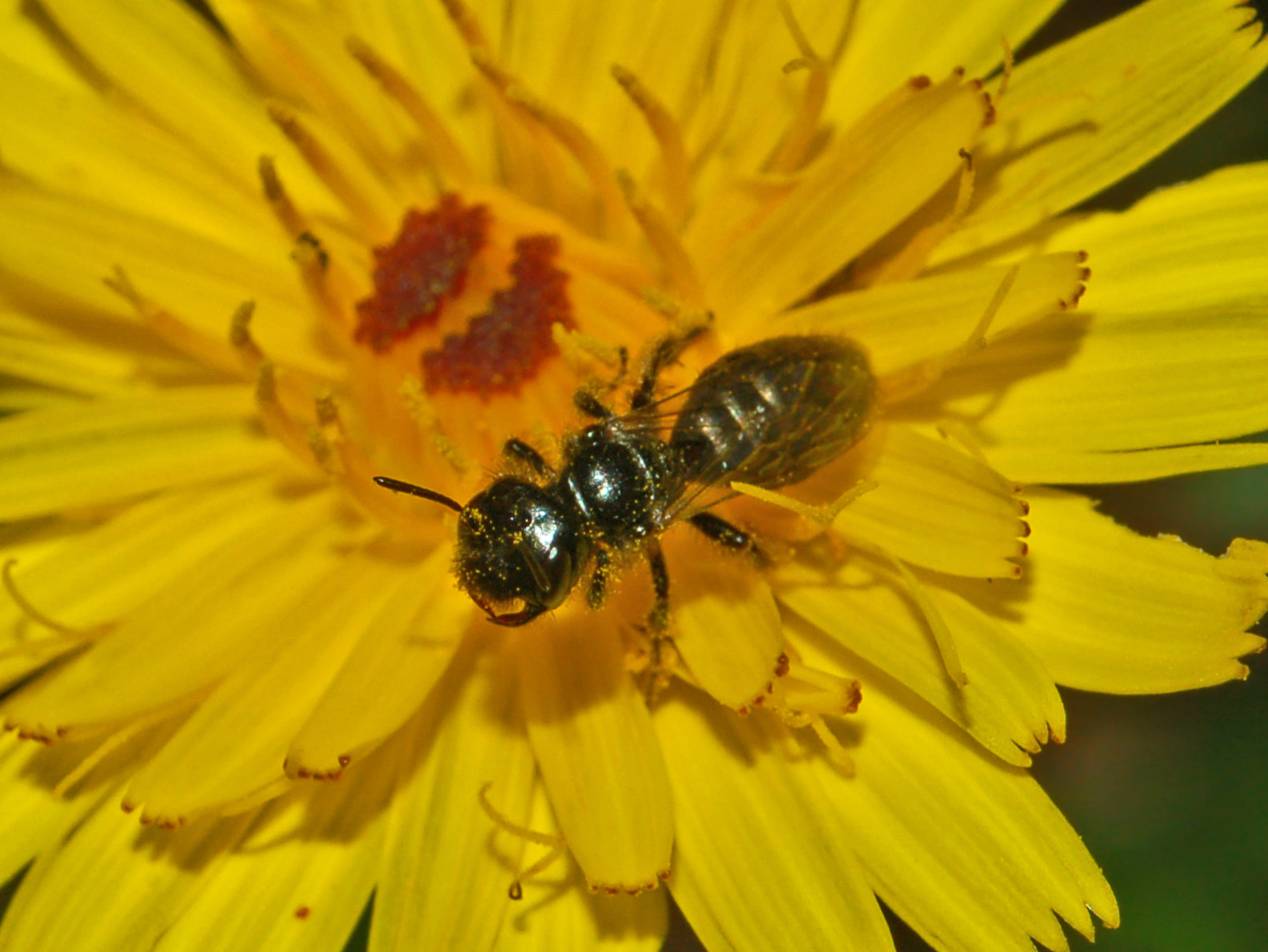 "Panurgus" sp. - Pragelato, Torino, Italy